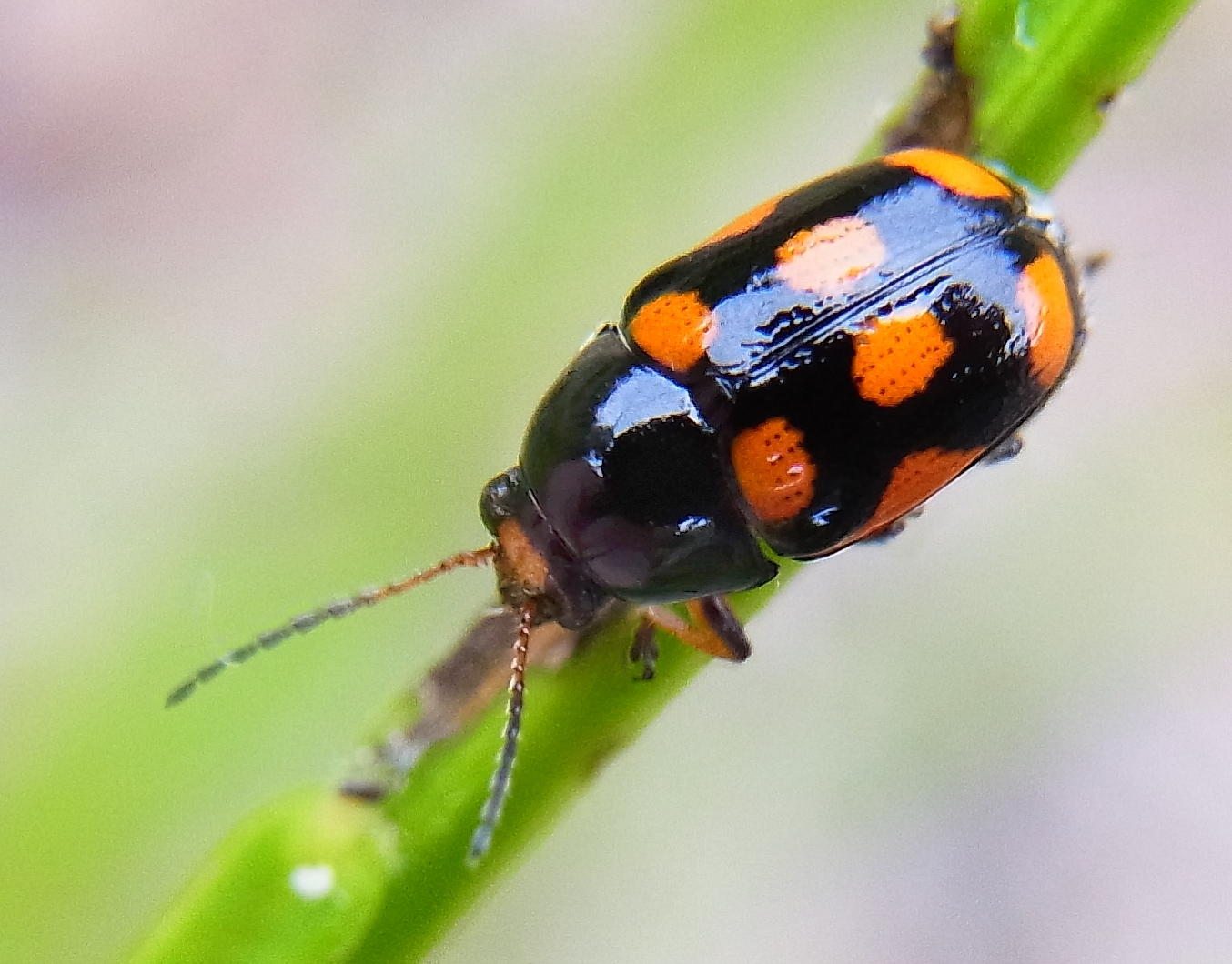 Cryptocephalus octoguttatus from Northern Spain, Sena de Luna, León enviabout 50 km south of Oviedo, about 1100 m high at 2013-07-19